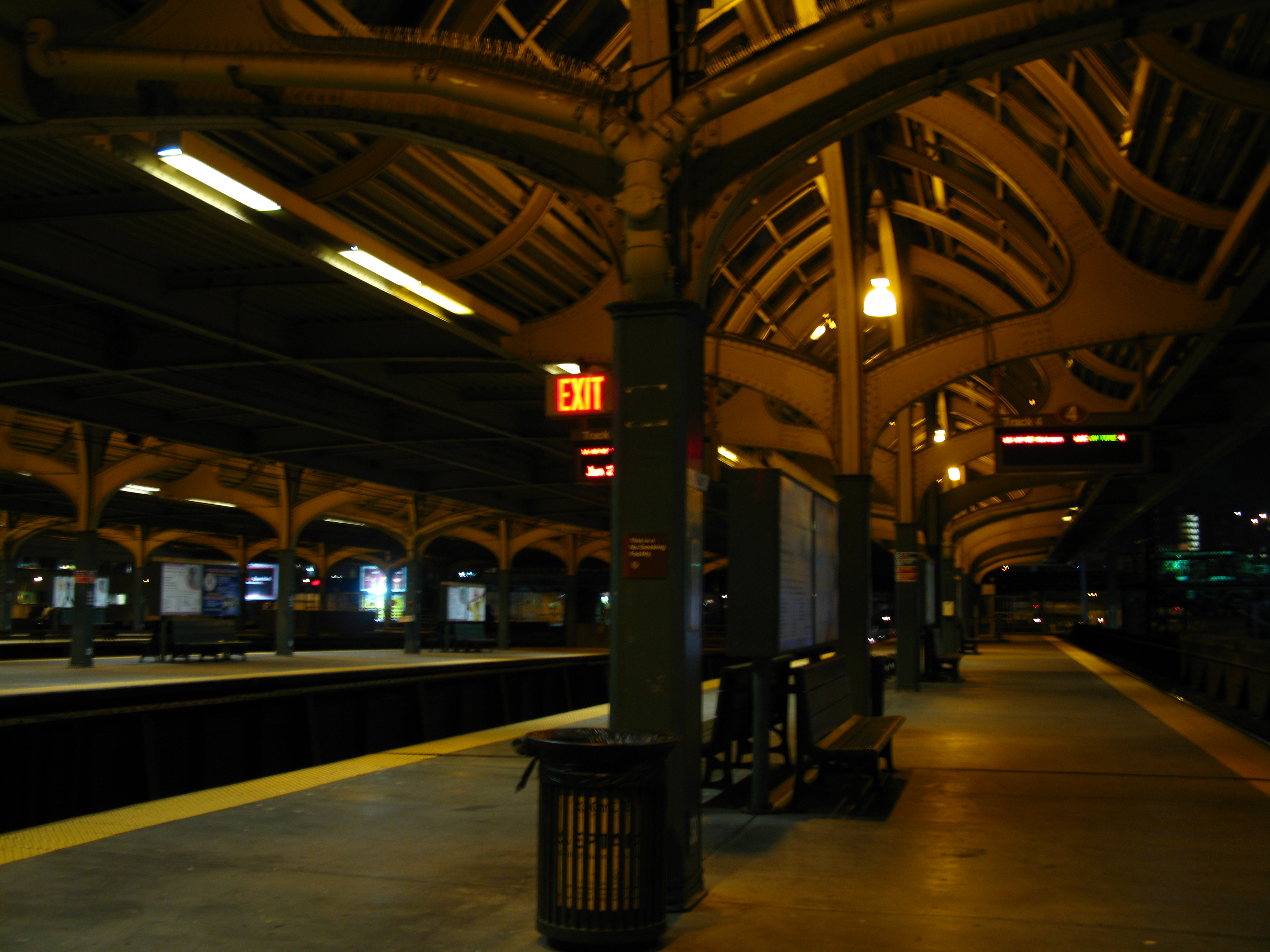 Upper platform level of 30th Street Station in Philadelphia, Pennsylvania.